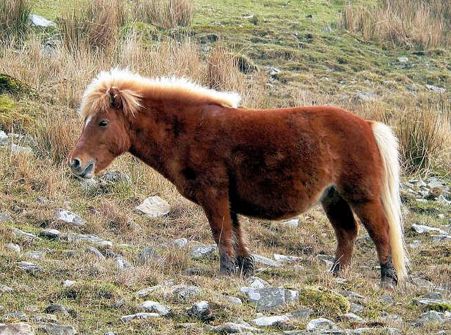 Dartmoor Pony. At Meldon Resevoir, near Okehampton. Photographed with a Panasonic DMC-FZ20 camera.